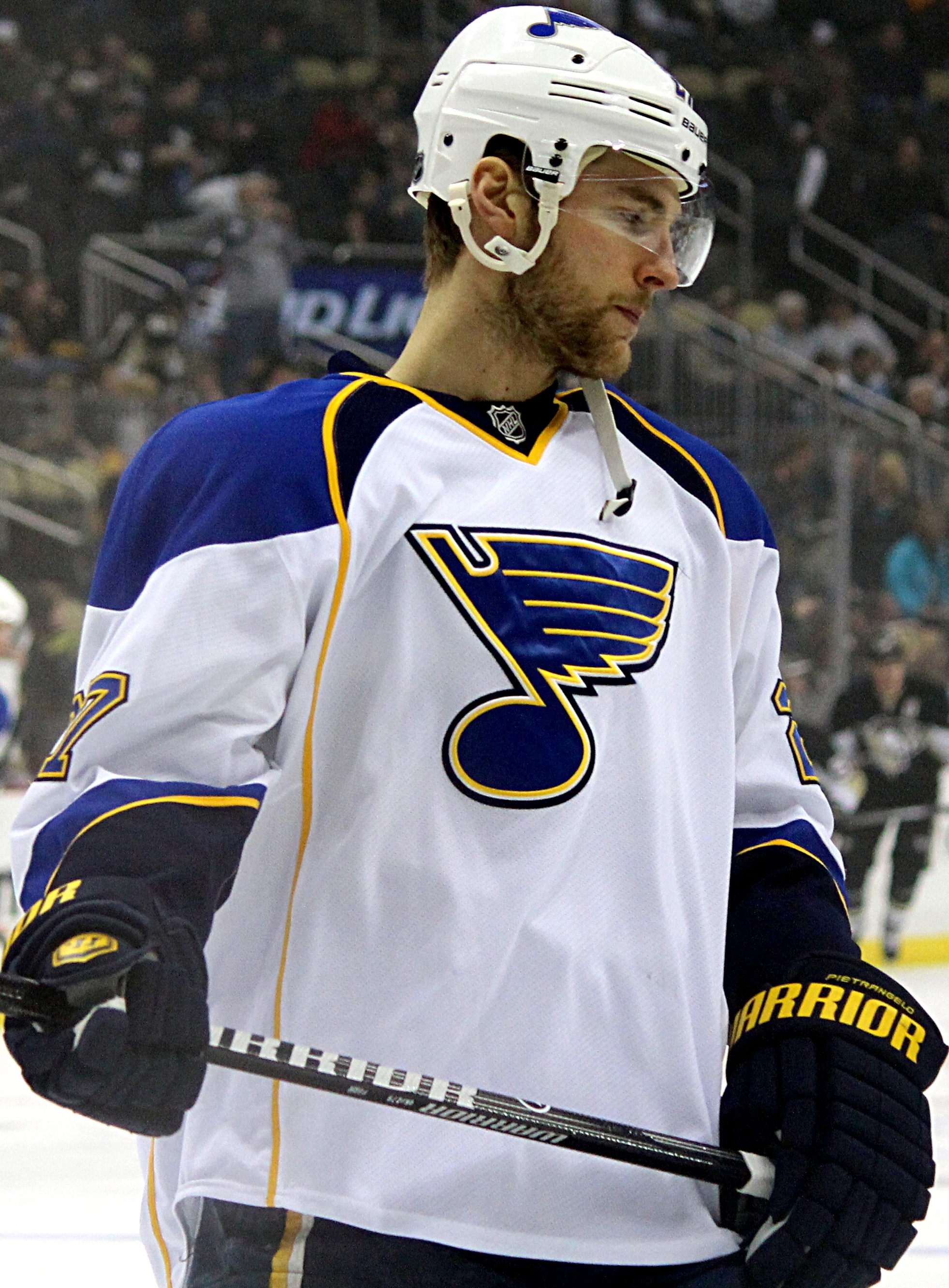 St. Louis Blues defenseman Alex Pietrangelo during a game against the Pittsburgh Penguins, March 23, 2014, at Consol Energy Center in Pittsburgh, PA.